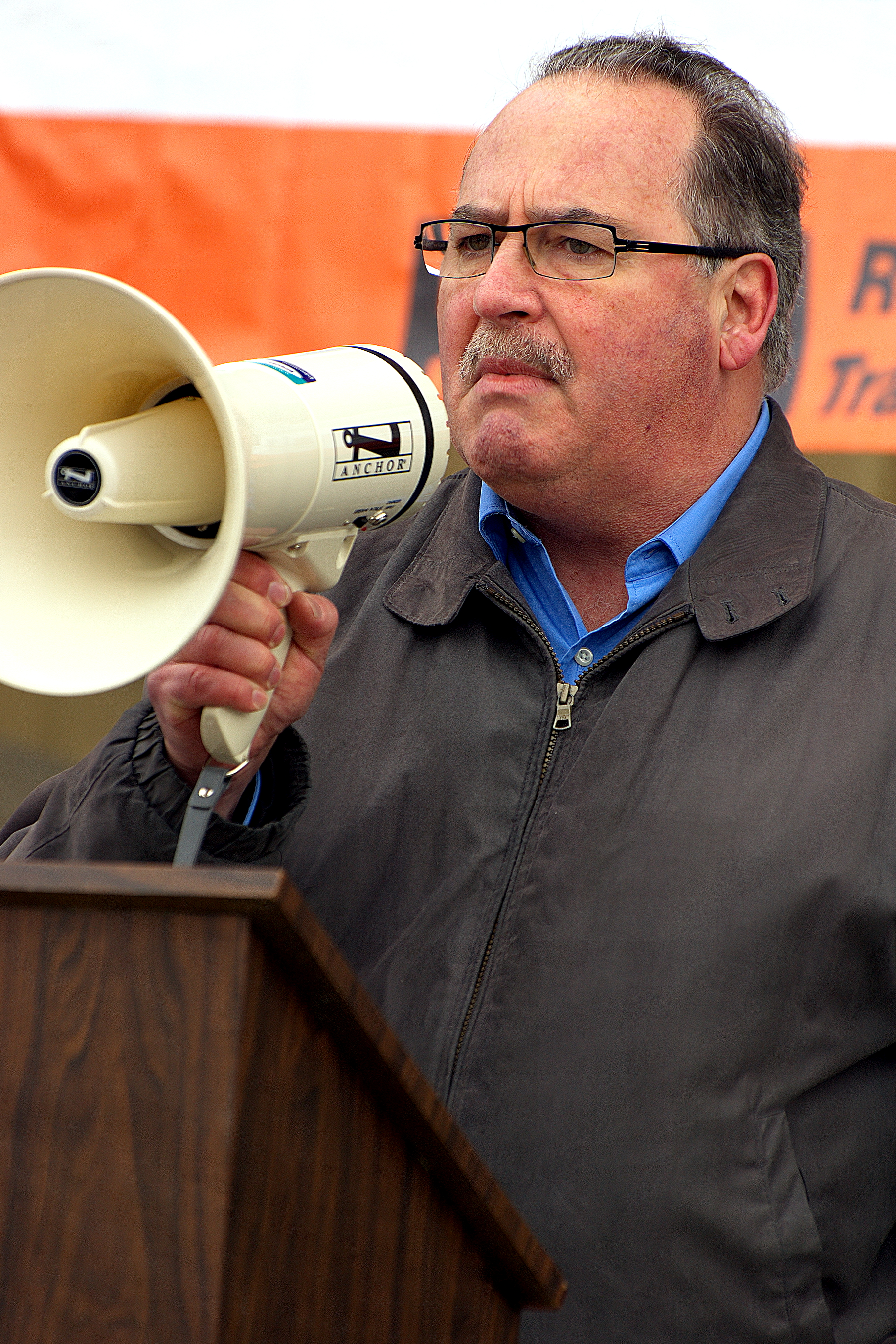 Edmonton-Highlands-Norwood MLA and Alberta NDP leader Brian Mason at the Alberta Legislature participating in a rally organized by RETA against the Heartland Transmission project.